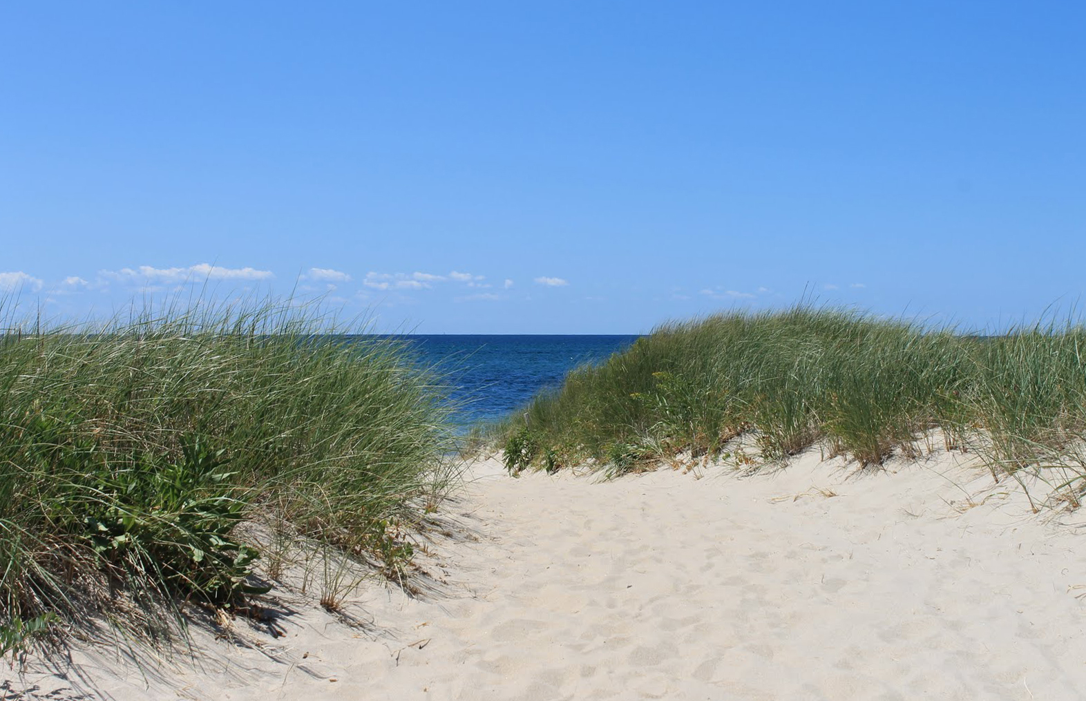 Sandy pathway to a town beach in Wellfleet, Massachusetts on Cape Cod